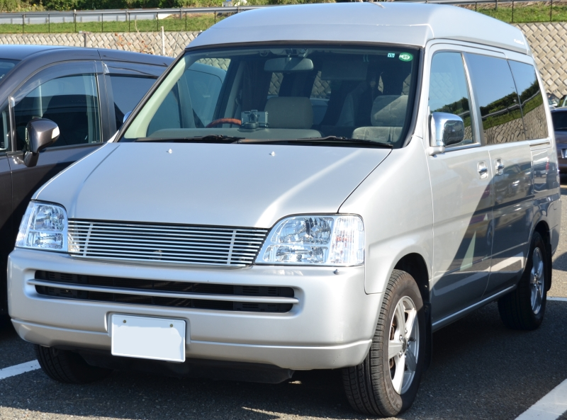 Honda Stepwgn Field deck